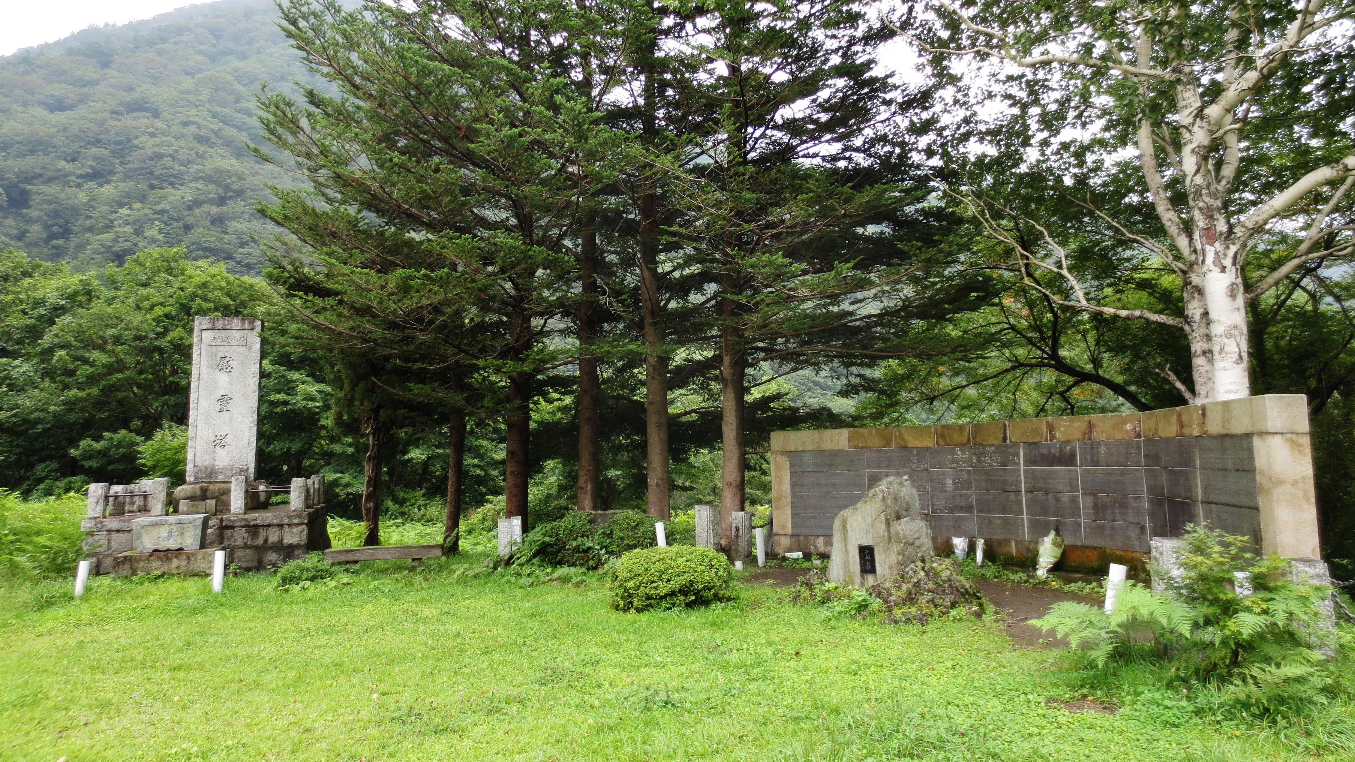 Mount Tanigawa cenotaph.